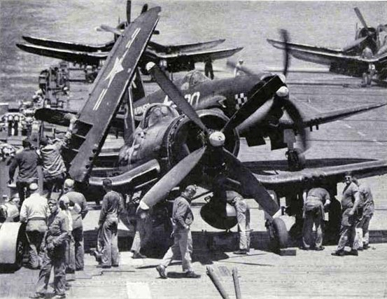 Vought F4U-4 Corsairs of Marine fighter squadron VMF-312 Checkerboards on the light aircraft carrier USS Bataan (CVL-29) in the spring of 1952 during a deployment to Korea.